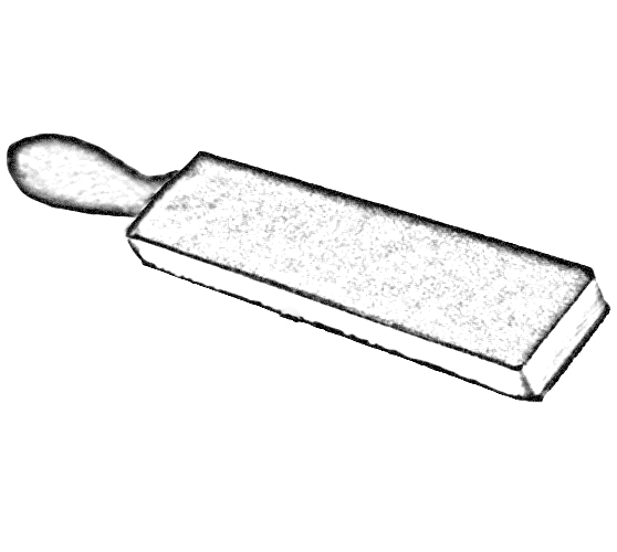 Paddle strop